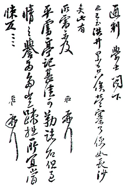 Calligraphy by Yue Fei